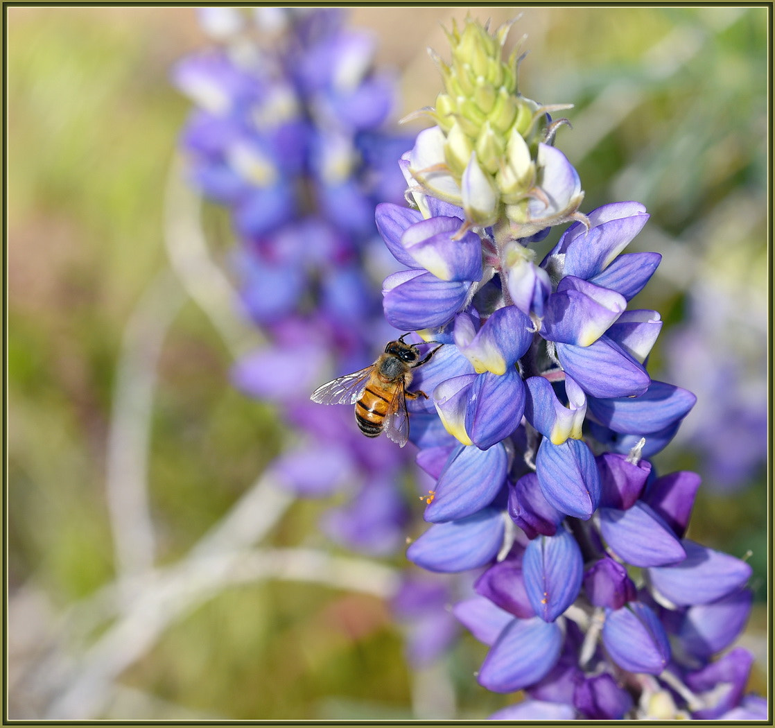 500px provided description: Loving some Grape Soda Lupine [#flowers ,#spring ,#flower ,#closeup ,#california ,#insect ,#purple ,#bee ,#wildflowers ,#lupine ,#lancaster ,#sigma 120-400 ,#california wildflowers]